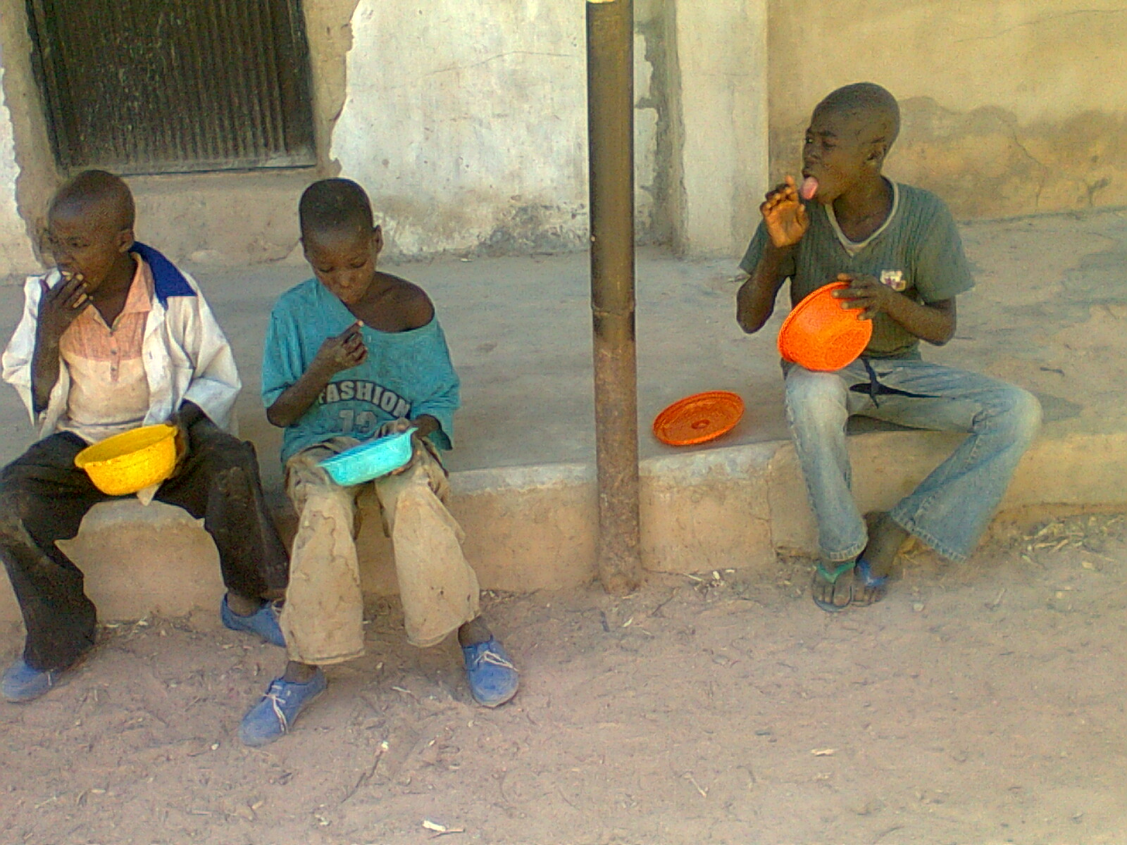 Almajirai, mendicants in Northern Nigeria, eating food.